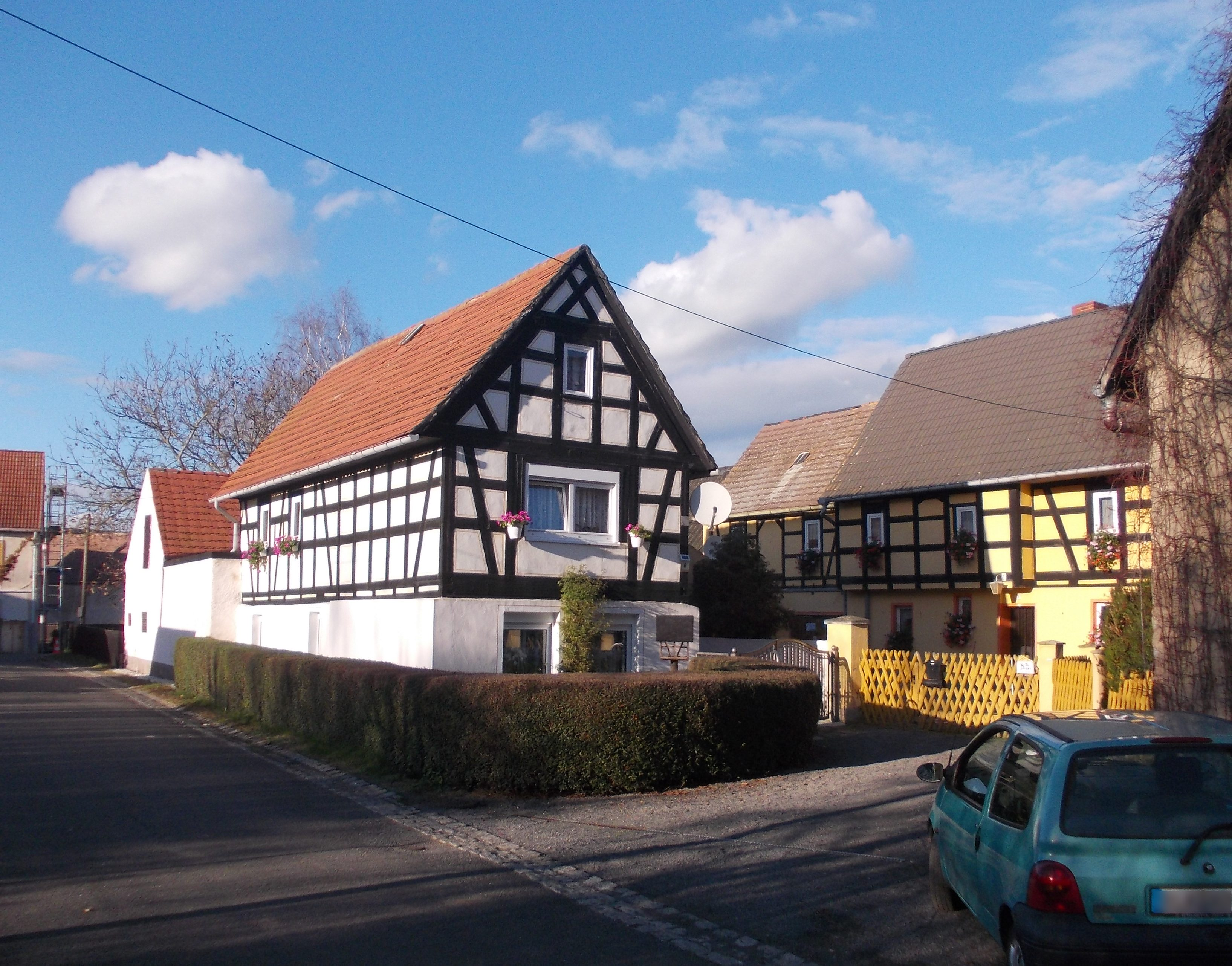 Half-timbered houses in Traupitz (Elsteraue, district: Burgenlandkreis, Saxony-Anhalt)